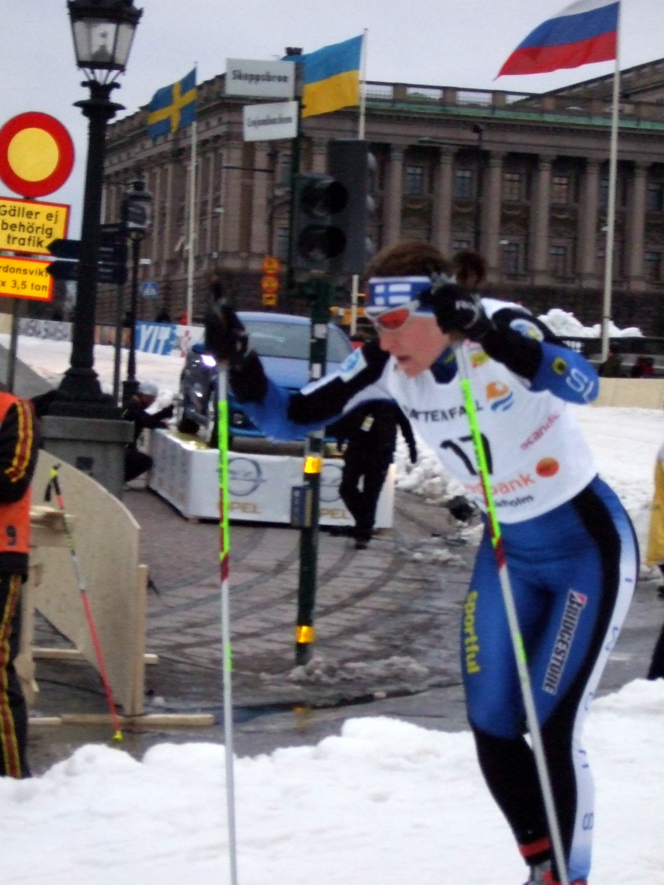 Aino-Kaisa Saarinen at the Royal Castle World Cup sprint in Stockholm, Sweden